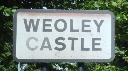 Weoley Castle Area Sign. The last known remaining district sign for the Weoley Castle area, situated on Shenley Lane (B4121), near to the Weoley Castle public house, as seen when entering the district from the direction of Northfield